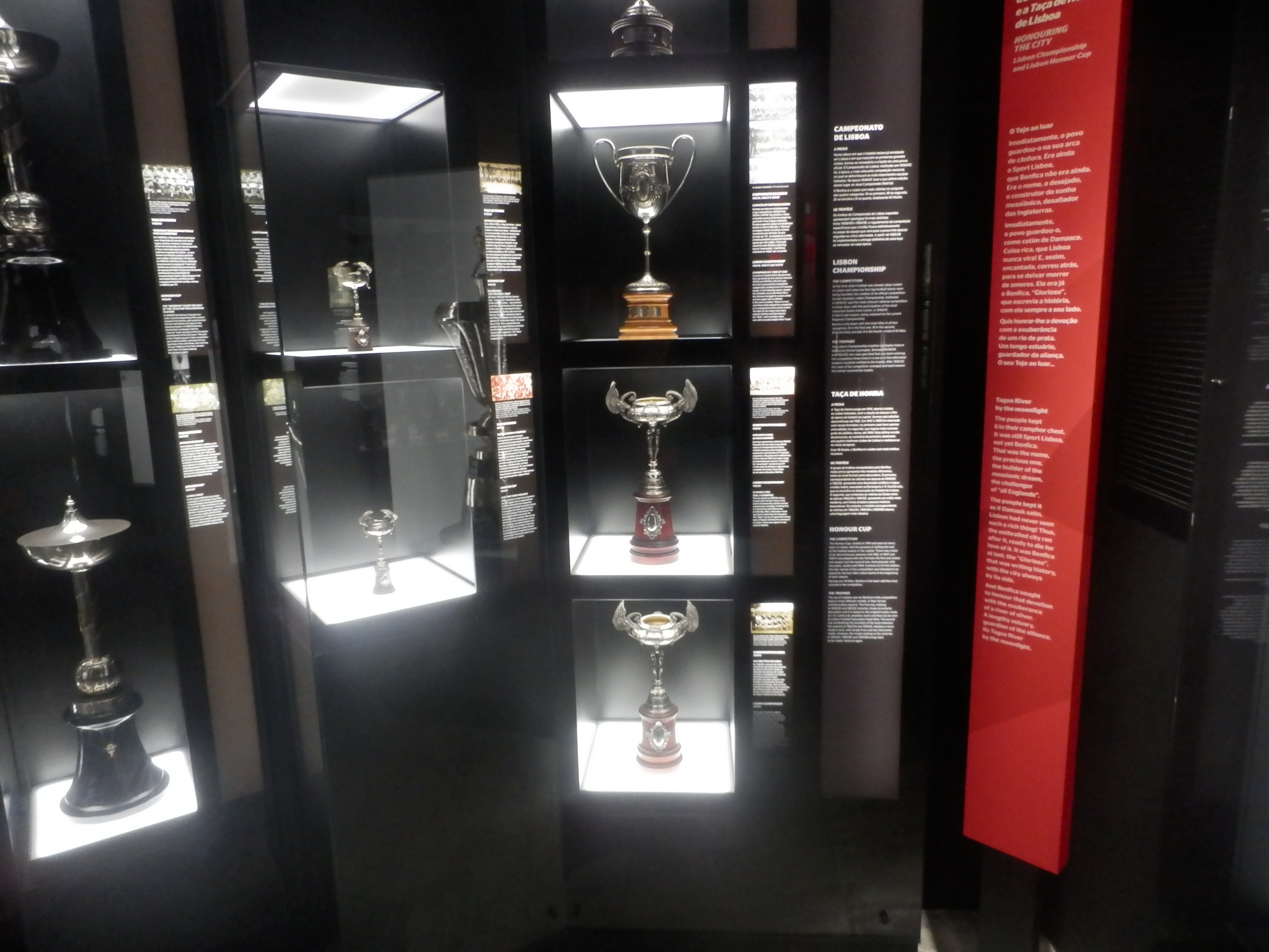 Some regional trophies, like Honour Cup and to the left Lisbon Championship